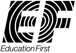 The official logo of EF Education First as of 2018, transparent background